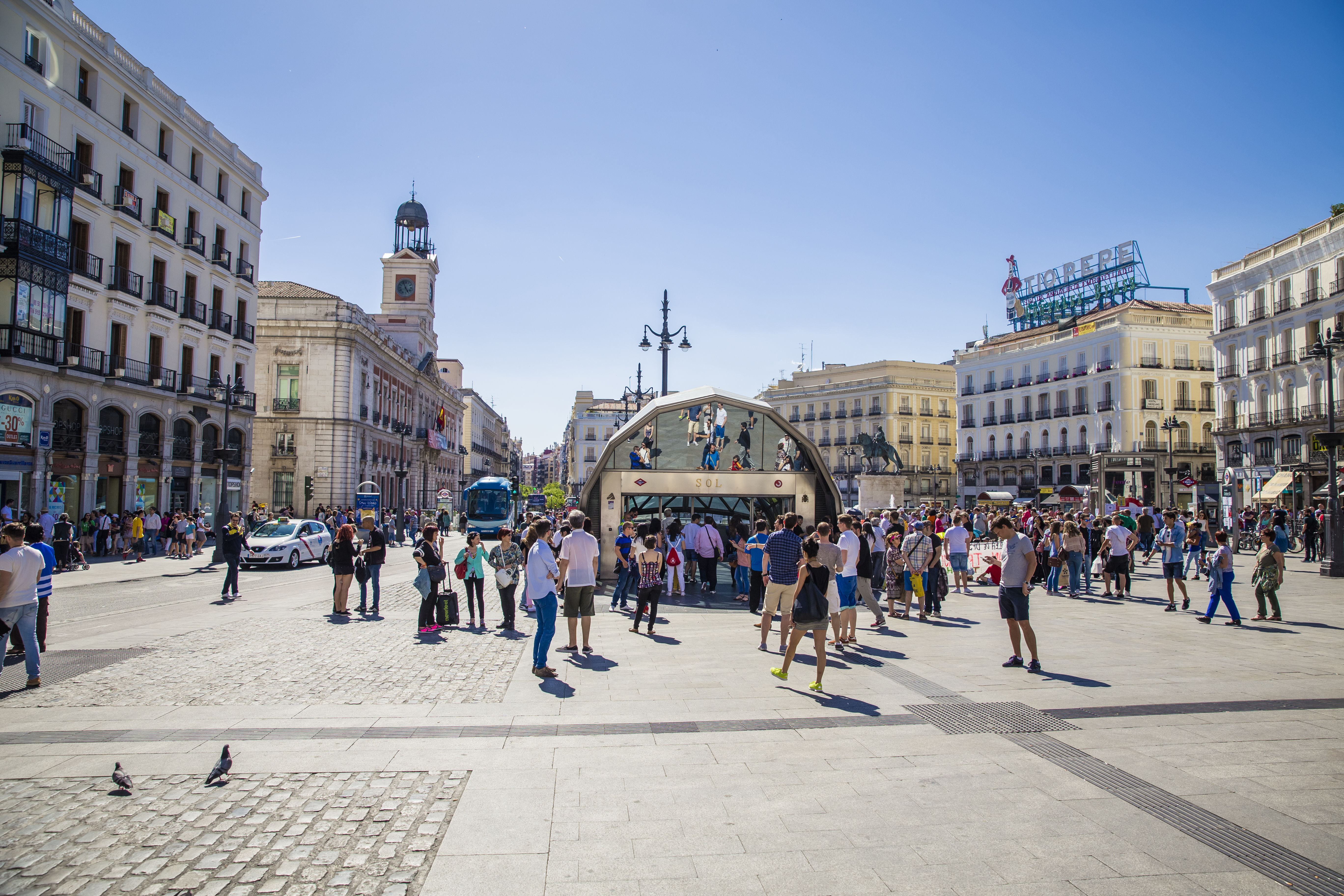 Tour around the City of Madrid Spain